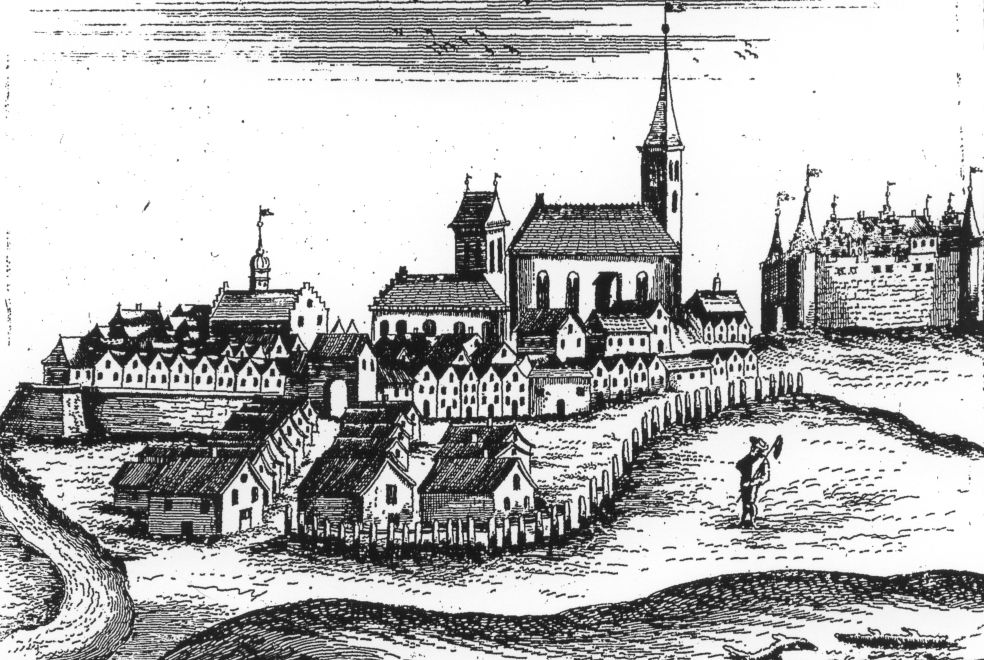 Schematic view of the city Węgorzewo in 1684 year from the north-west.